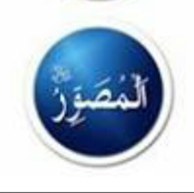 Al-Musawwir / The Fashioner of forms is a name of Allah, Is a name of God in Islam.